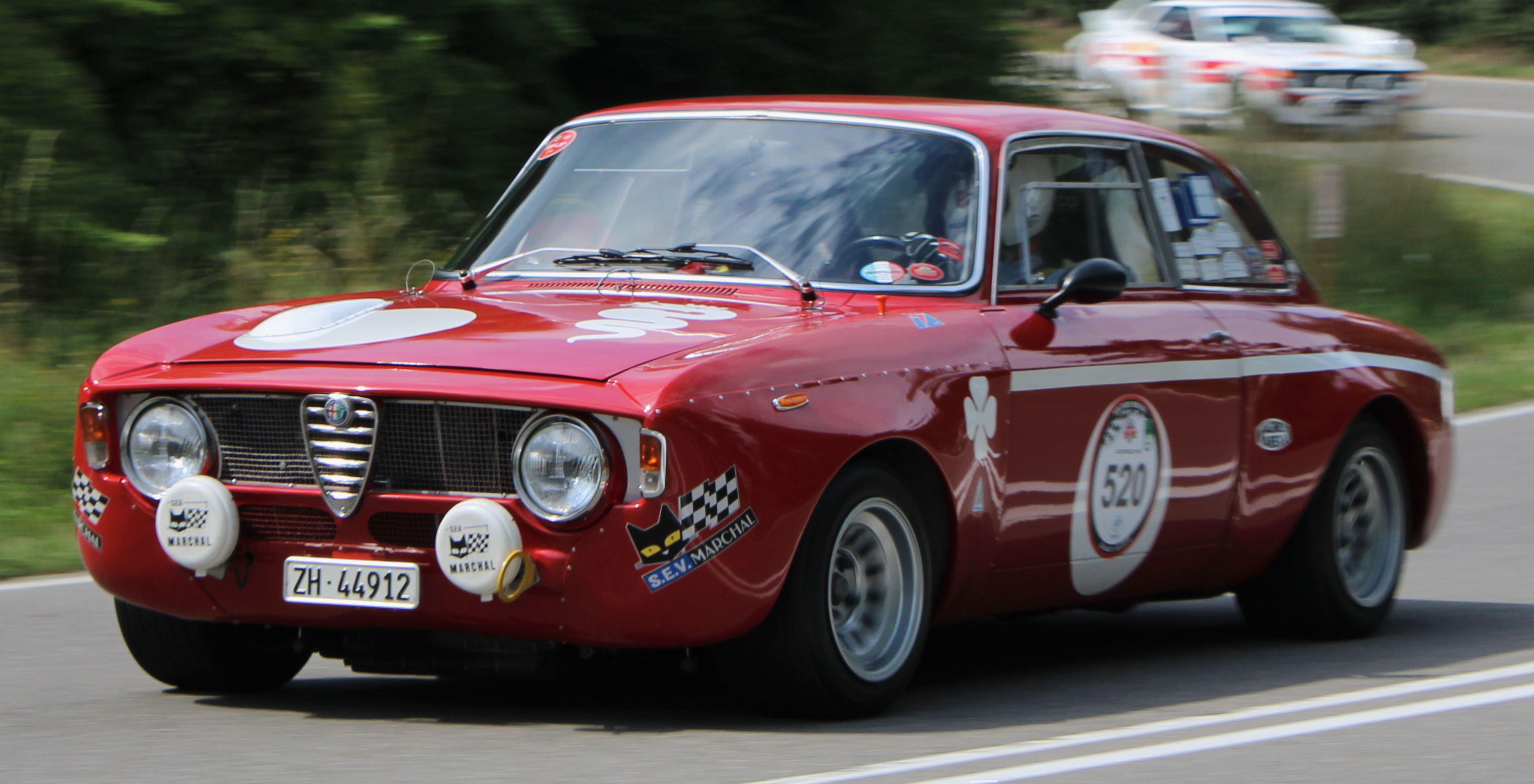 Alfa Romeo GTA Junior Autodelta Corsa (1968) at Solitude Revival 2019